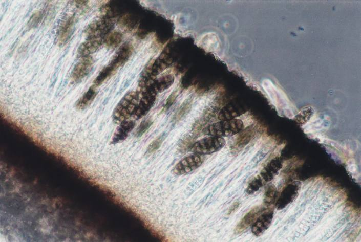 Diploschistes muscorum (Scop.) R. Sant., 1980 Photograph of a cross section of an apothecium of D. muscorum taken through a compound microscope (x400) showing 4 muriform spores per ascus. This specimen of Diploschistes muscorum was growing on sandy soil at "Bear Rocks" at the northern end of the Dolly Sods Wilderness Area of the Monongahela National Forest, Tucker County, West Virginia, USA. Collected and determined by E.C. Uebel (No. U-33, 19 May 2001).